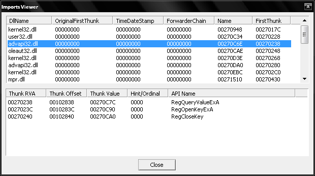 Example of IAT (import address table) in a Windows app